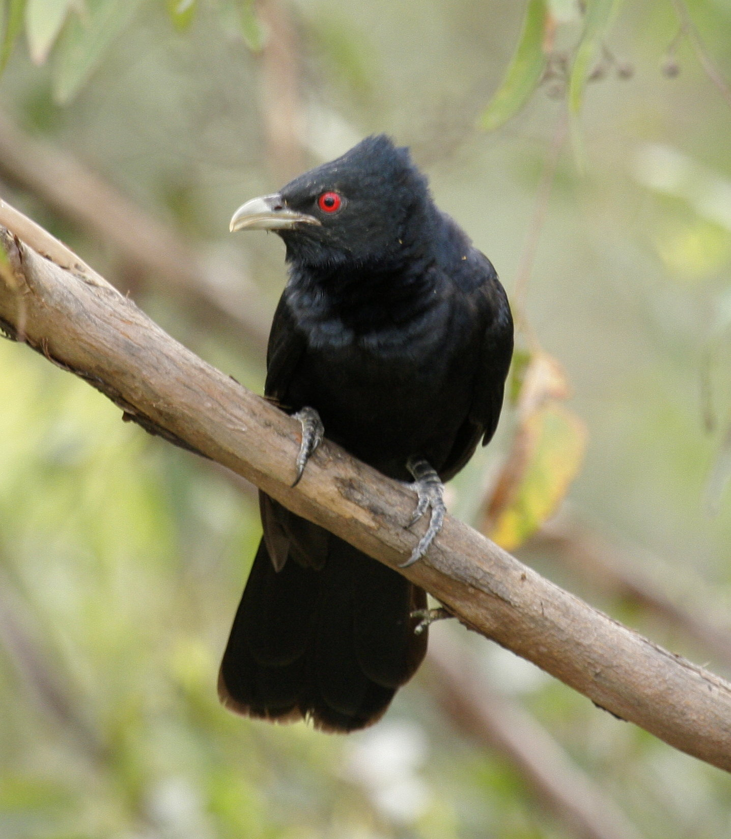 Pacific Koel (Eudynamys orientalis) Kobble Creek, SE Queensland, Australia